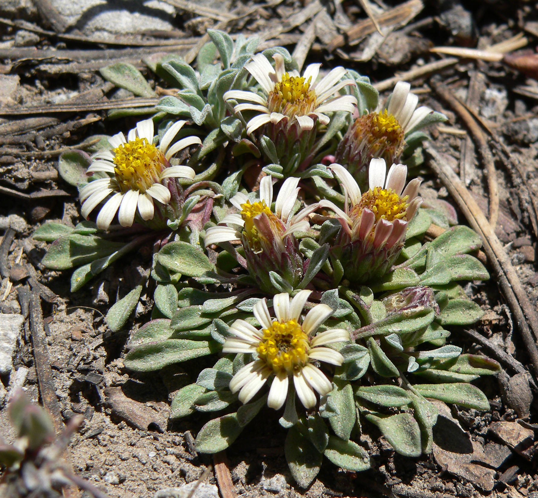 Townsendia jonesii in Lee Canyon alongside the Bristlecone Trail near the trailhead, Spring Mountains, southern Nevada (elev. about 2700 m)